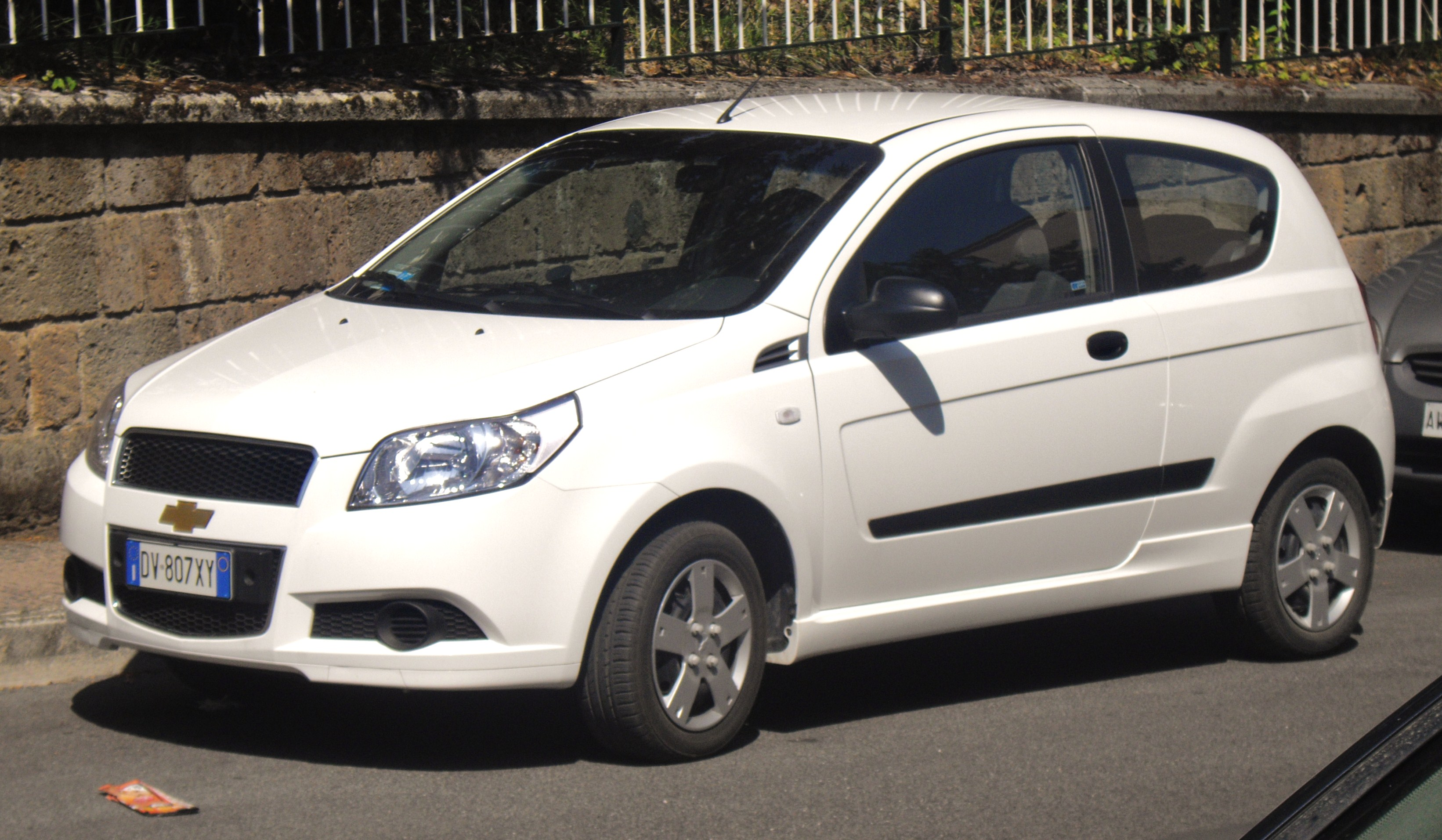 Chevrolet Aveo Eco Logic